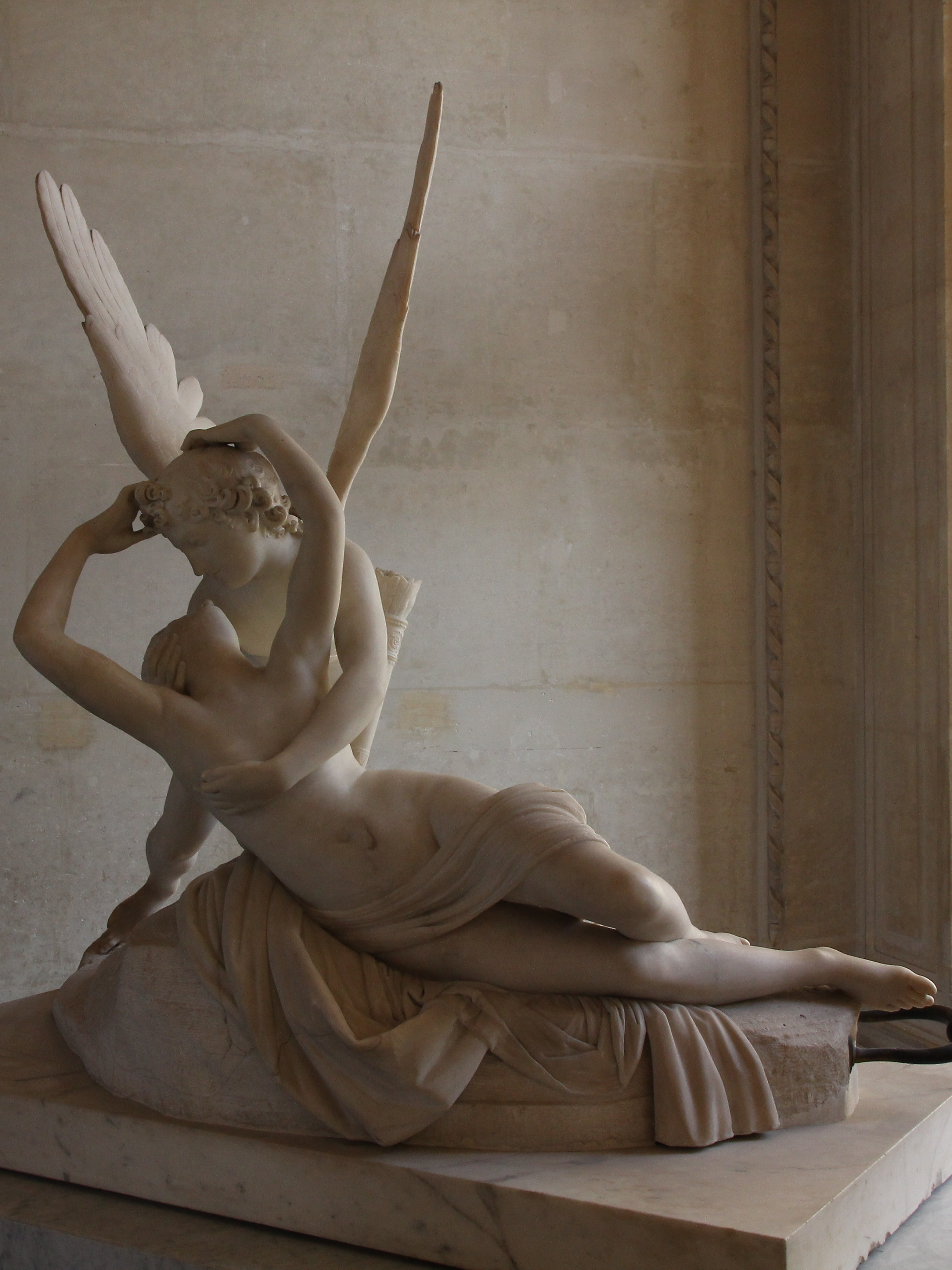 Amor (Cupid) kisses Psyche by Antonio Canova, Louvre